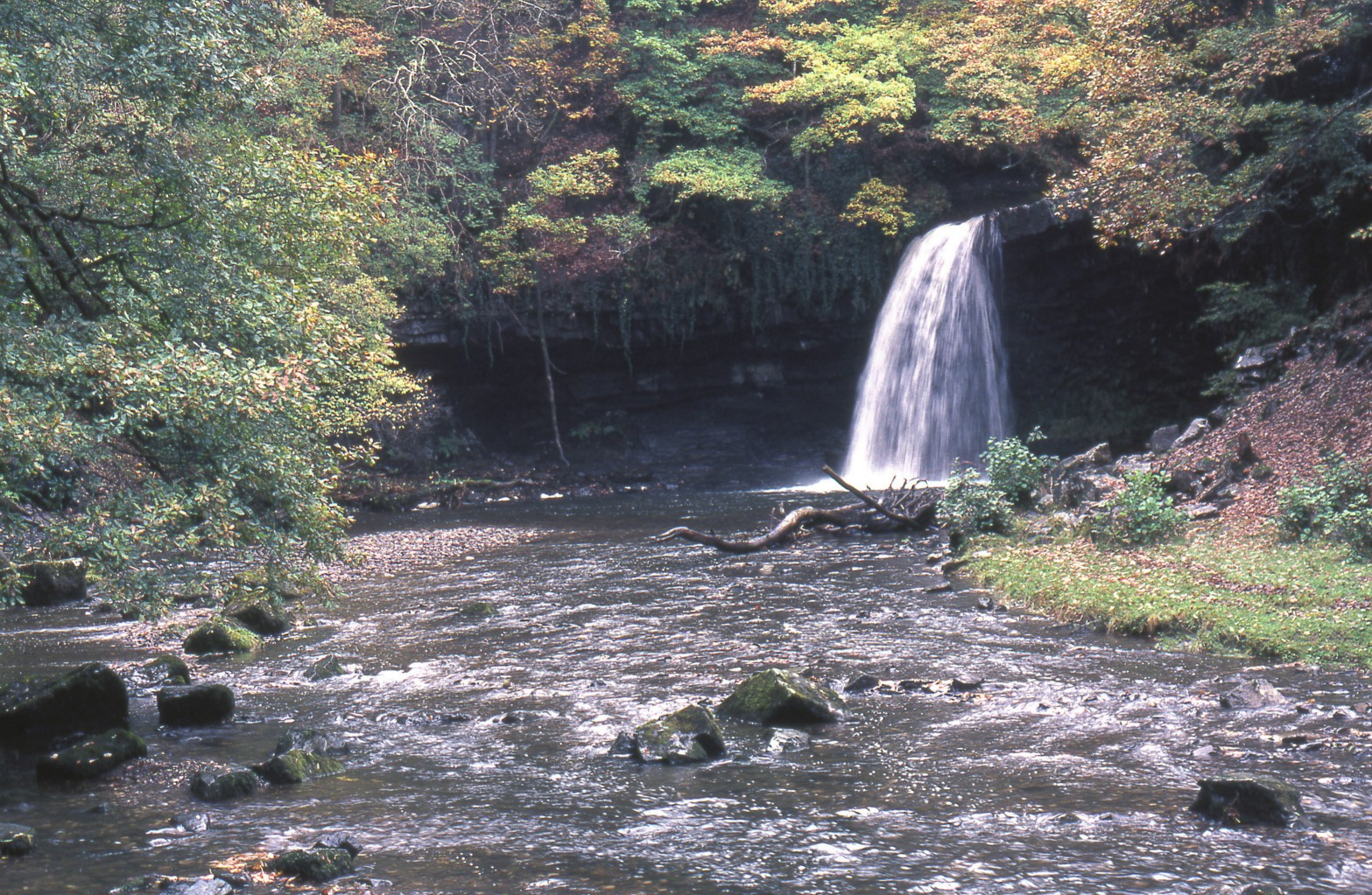 Sgwd Gwladus waterfall , River Pyrddin, upland tributary of River Neath, South Wales